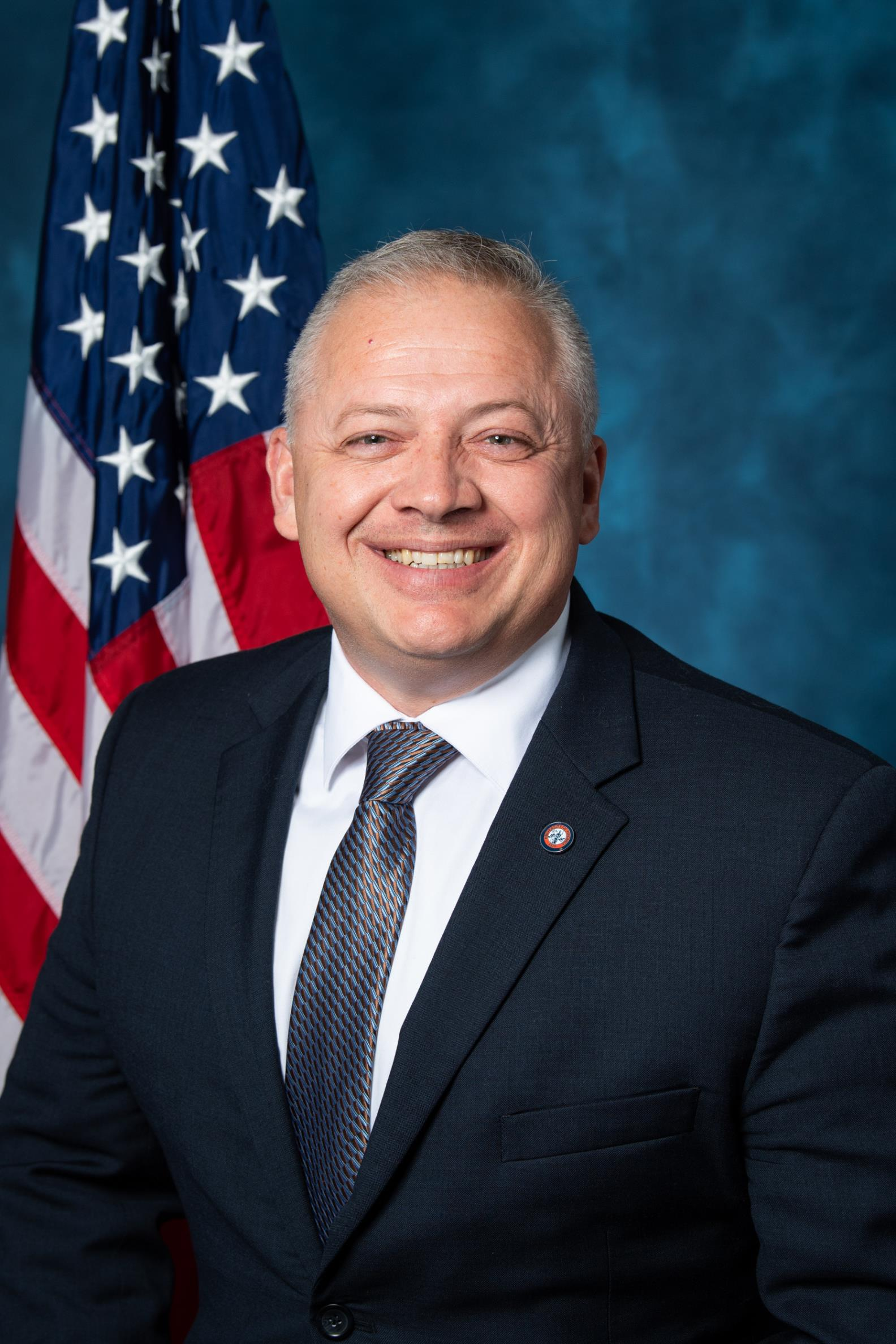 Denver Riggleman, member of the United States House of Representatives from Virginia.